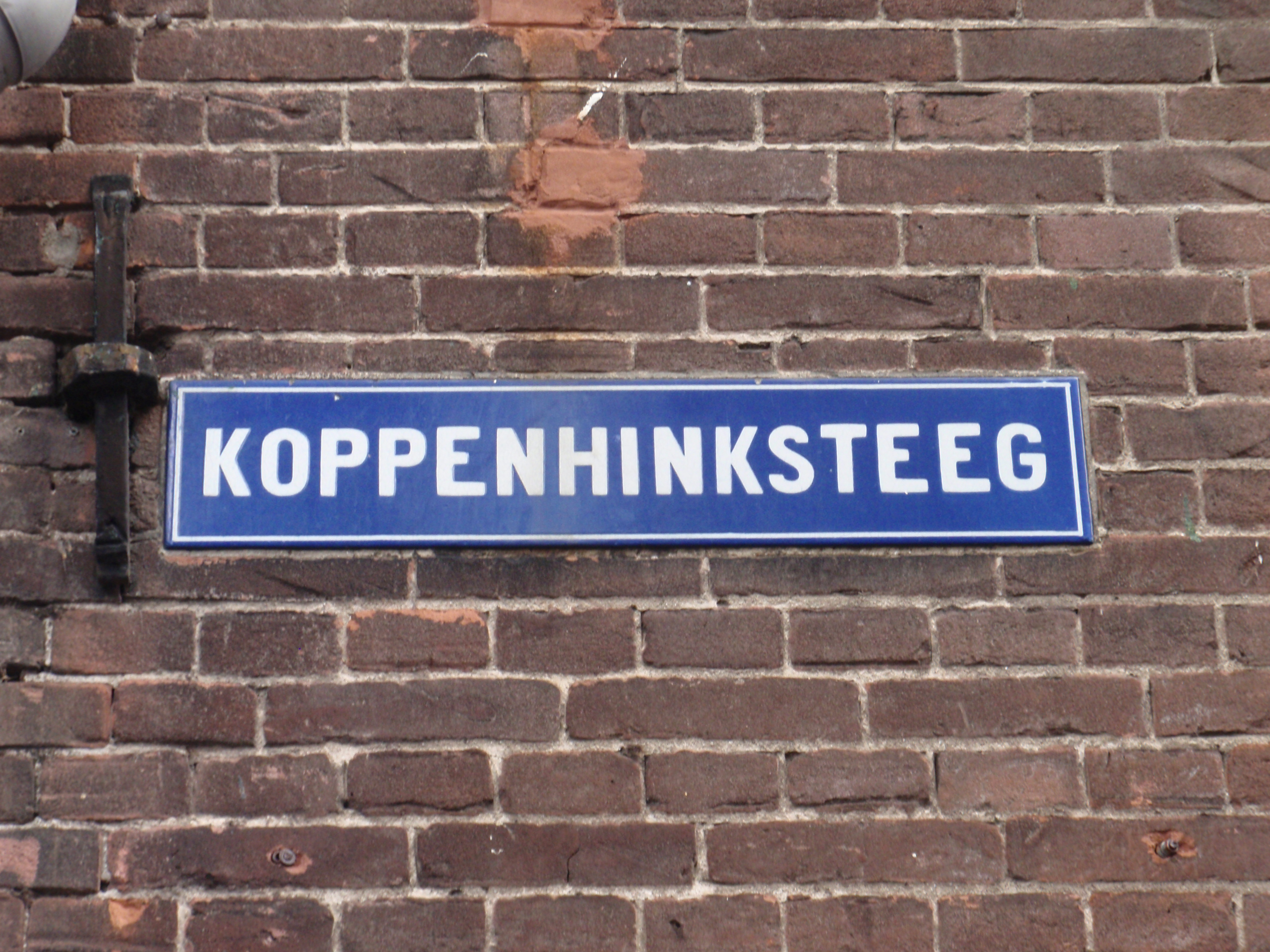 Street sign of the Koppenhinksteeg in Leiden (NL)